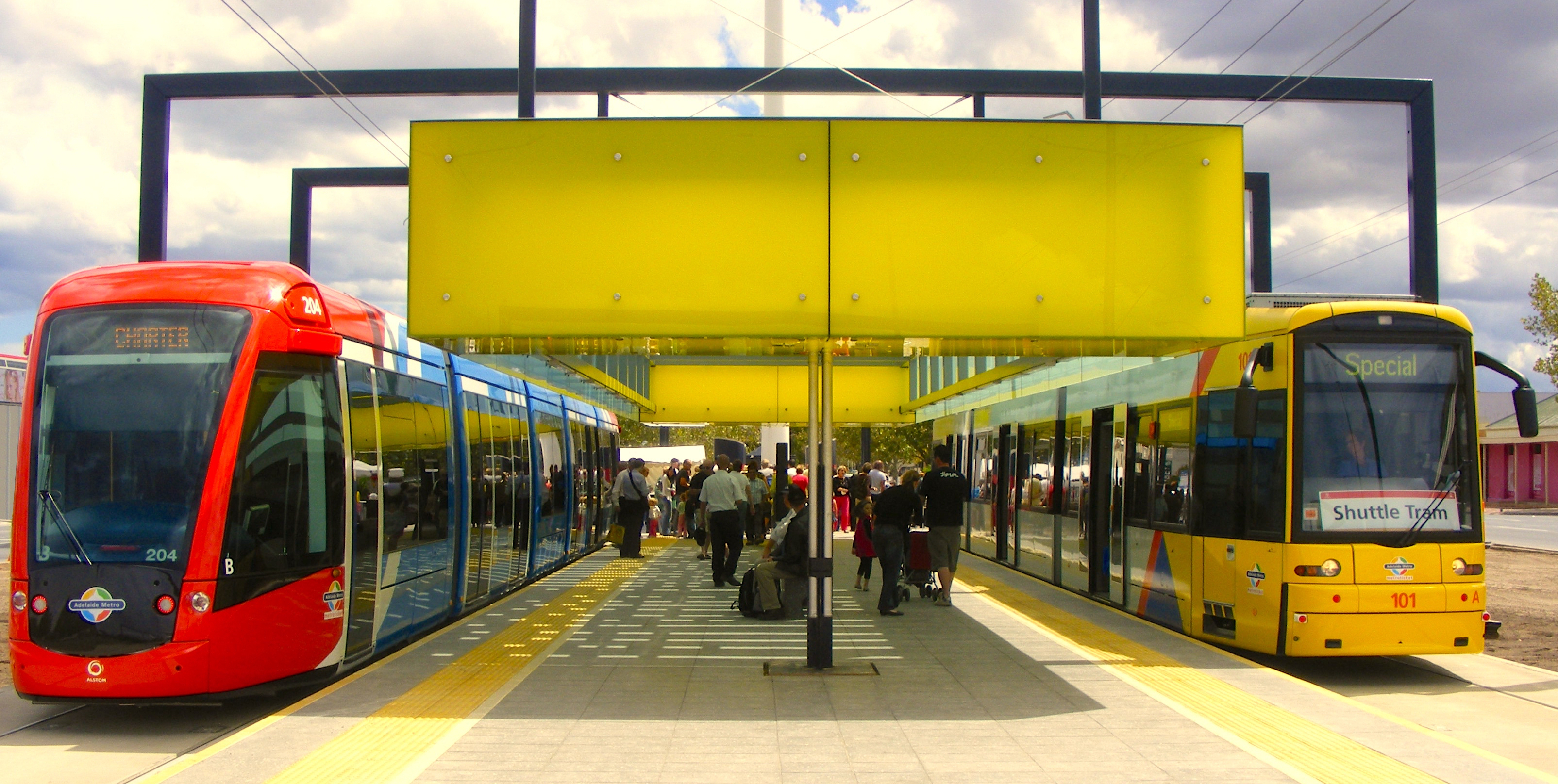 Taken by Norman Hackenberg on 07/03/2010 in Hindmarsh.